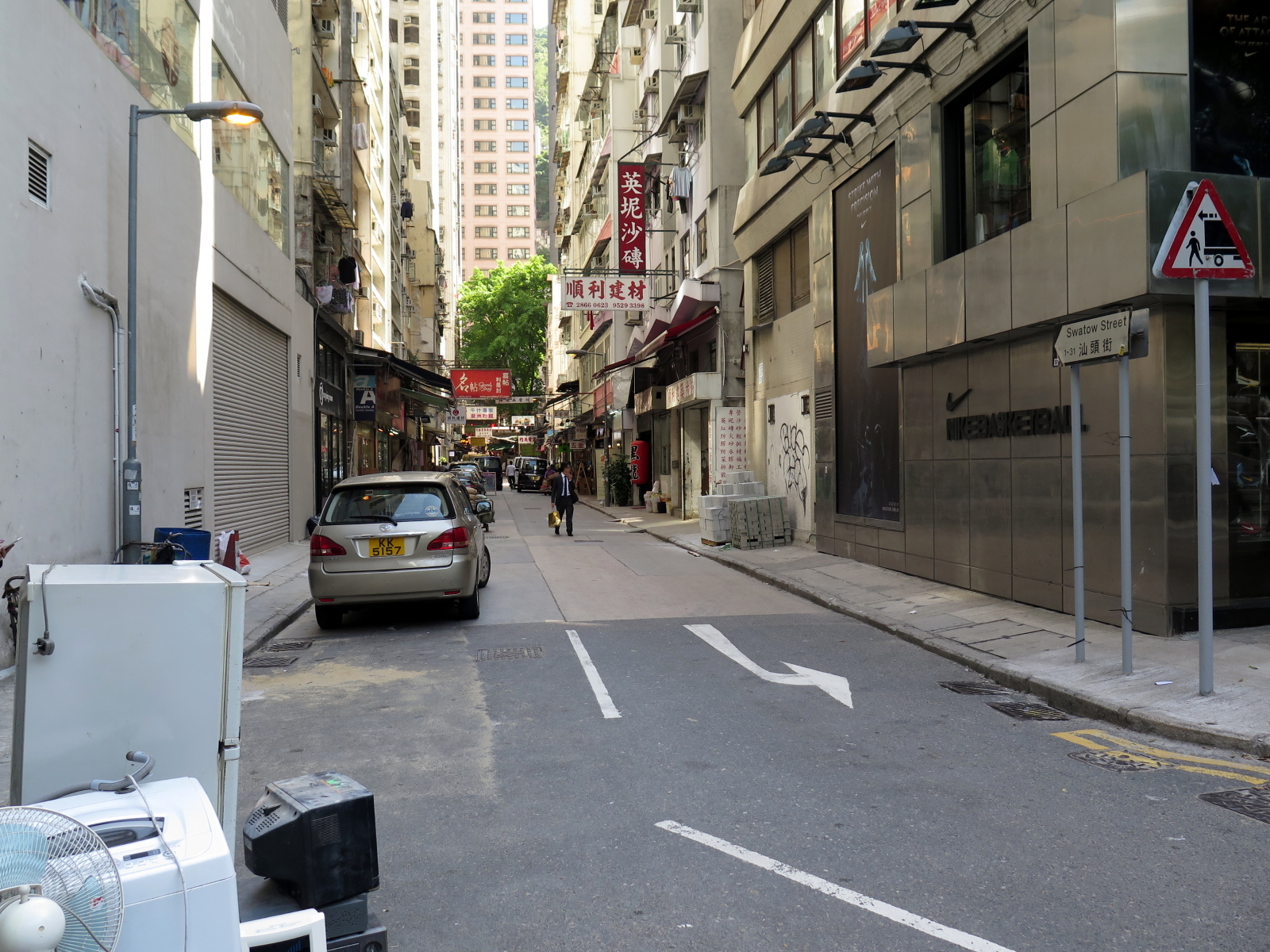 Shatow Street